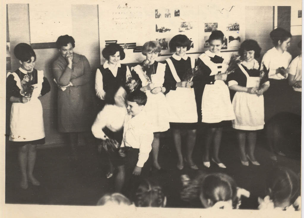 1968, the end of May. A final bell celebration at a school in Sverdlovsk, USSR. The Final Bell or Последний звонок is rung, usually by a first grader for the 10th-graders who are just about to graduate. Here one of the girls, it seems, has stooped to kiss the bellringing first-grader. ^_^